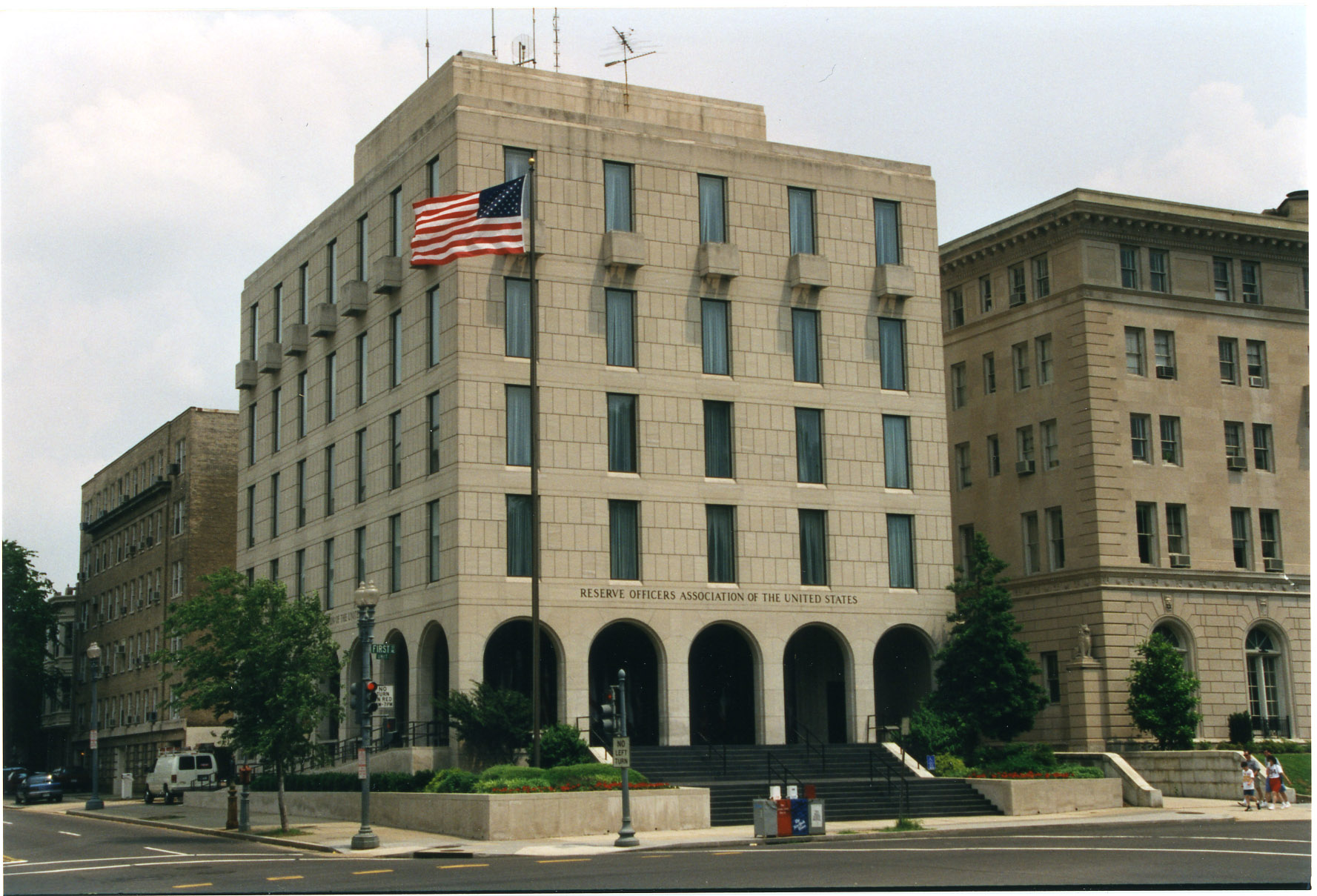 Reserve Officers Association's Minuteman Memorial Building